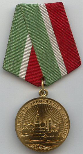 Jubille medal "in memory of the 1000th anniversary of Kazan". State jubilee medal of the Russian Federation.